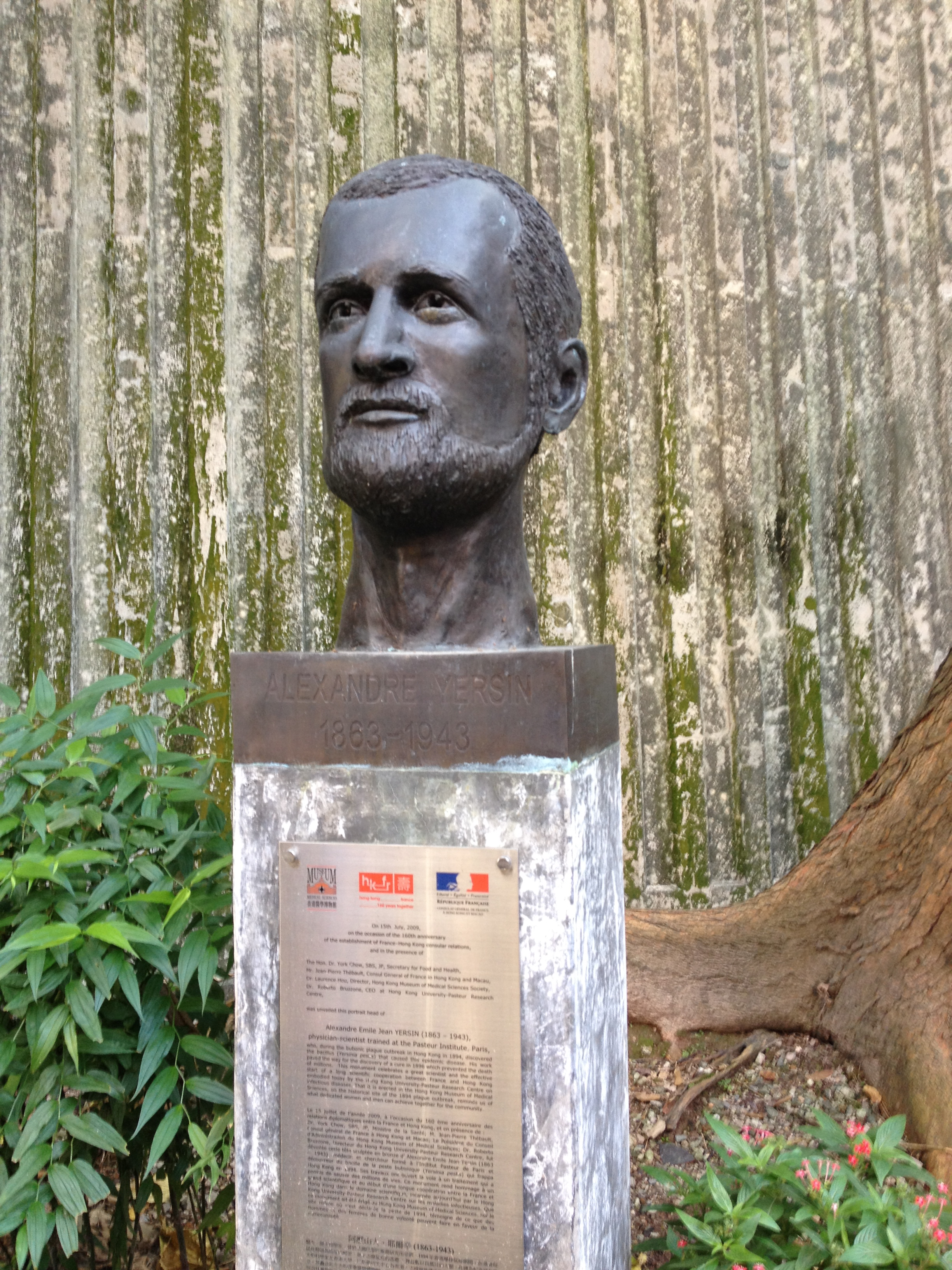 Monument to Alexandre Yersin, discoverer of Yersinia Pestis (the bubonic plague pathogen) at the Hong Kong Museum of Medical Sciences